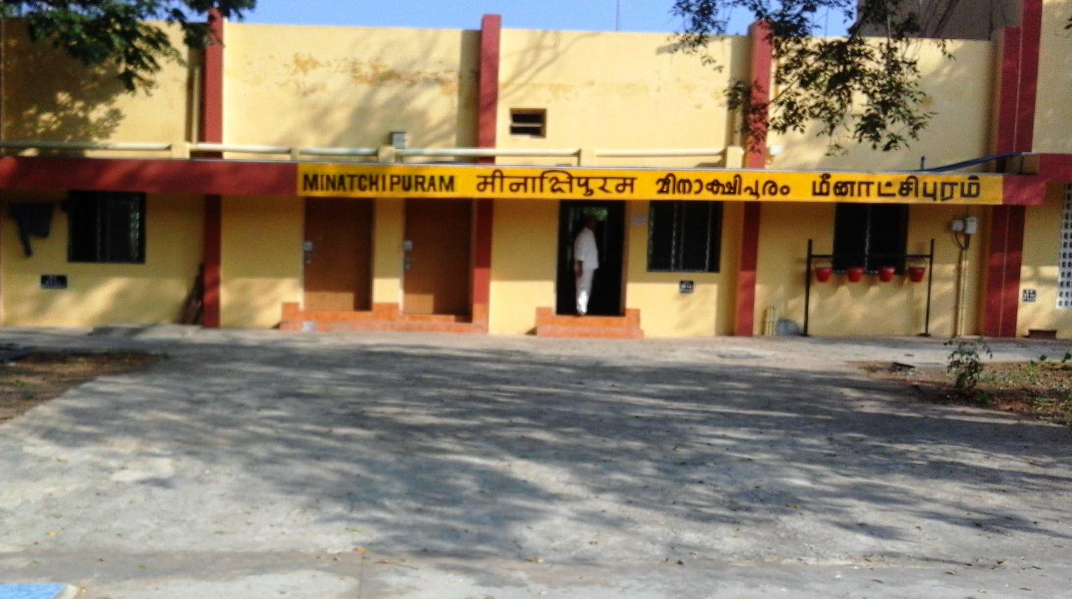 Pollachi, Coimbatore, India.